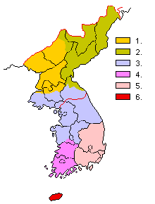 Demarcations of Korean Dialects by LEE Sung Nyong(이숭녕)